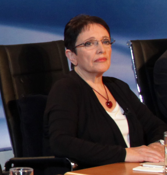 Aleka Papariga (KKE) at the six party leaders' televised debate ahead of the 2009 Greek legislative elections.